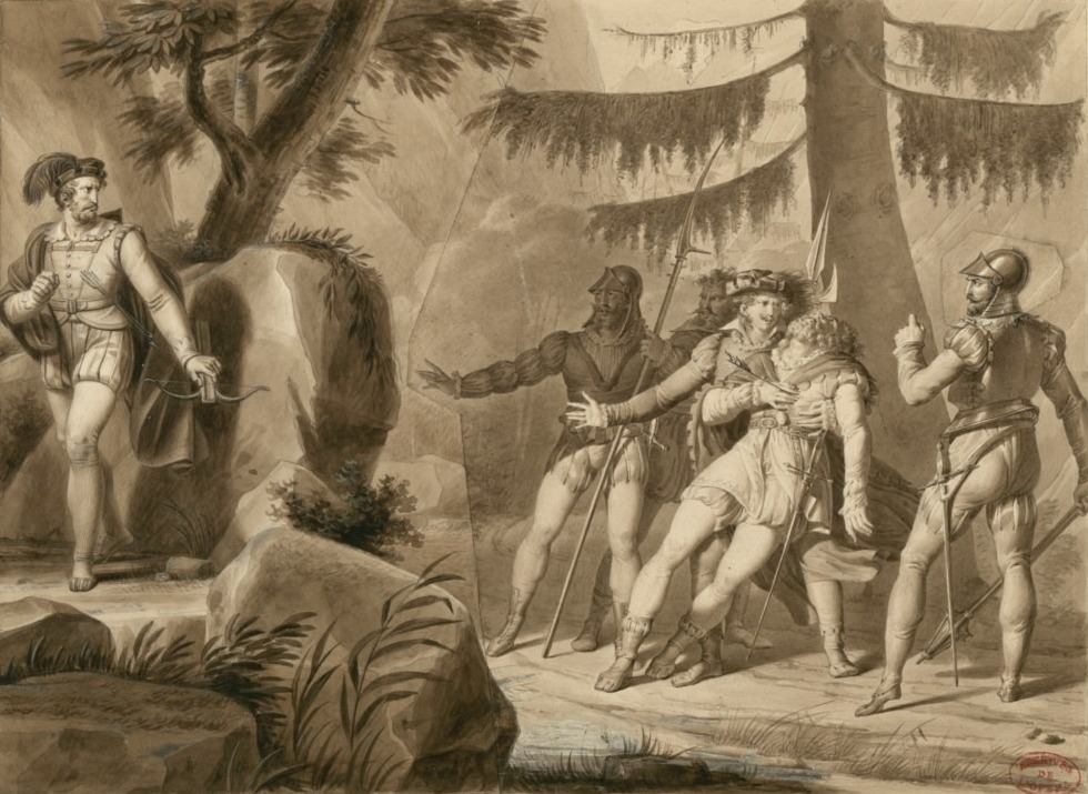 Gioachino Rossini - Guillaume Tell - Charles-Abraham Chasselat - dessin préparatoire à la gravure 2